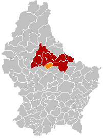 Own edit of Kanton DiekirchLocatie.png